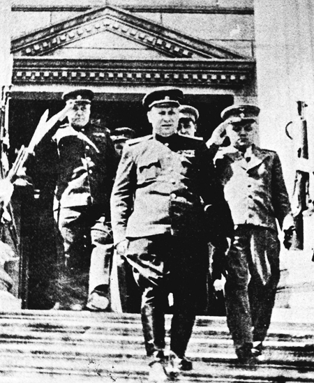 "Terenti Shtykov, head of the Soviet delegation, leaves after the first meeting of the U.S.-Soviet Union Joint Commission at Deoksu Palace, central Seoul, in 1946. After World War II, the Korean Peninsula was under the control of both the United States and the Soviet Union, and Shtykov was the Soviet governor of the North. / Korea Times file" [1]